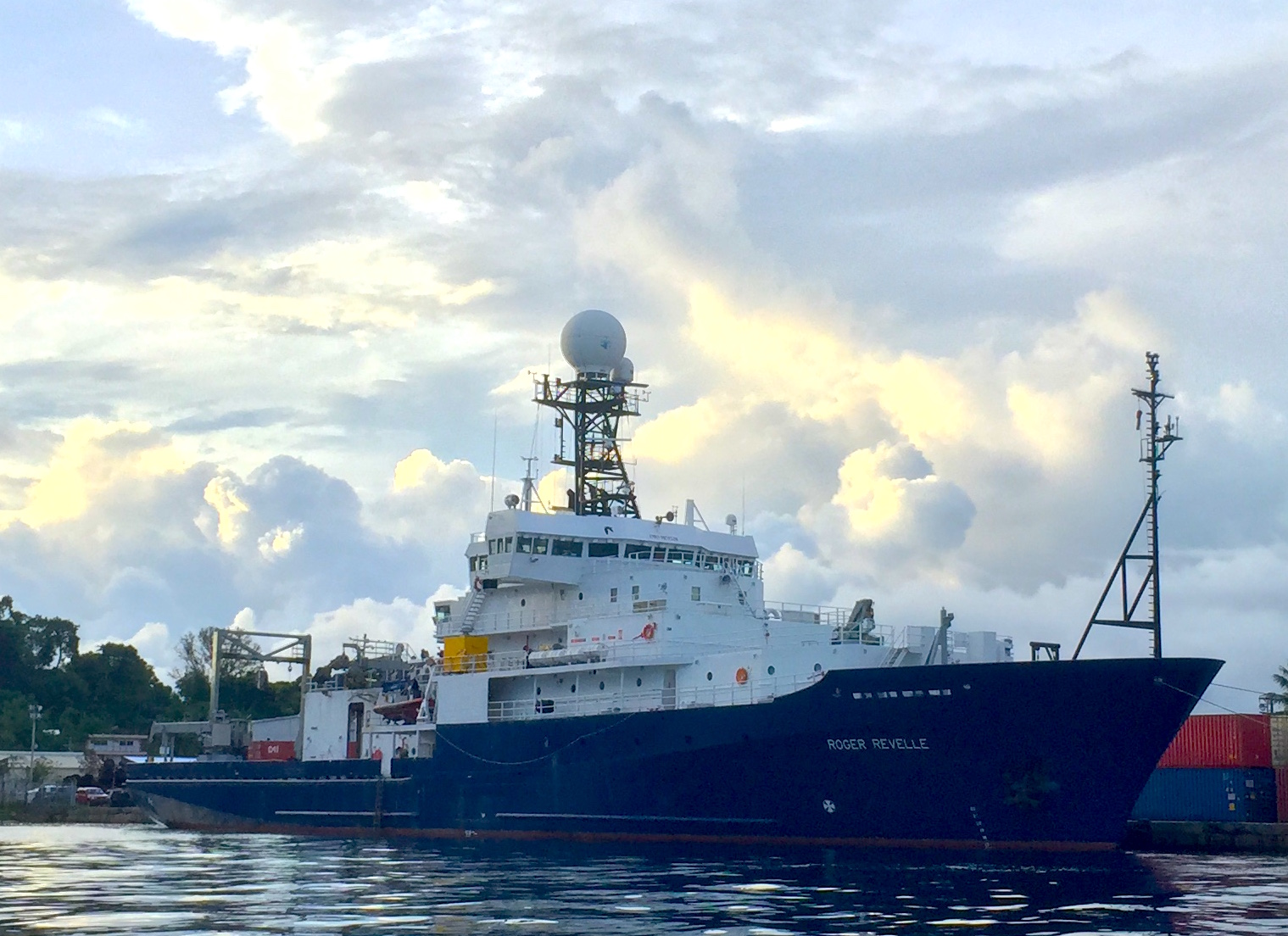 R/V Roger Revelle in Palau, 2016